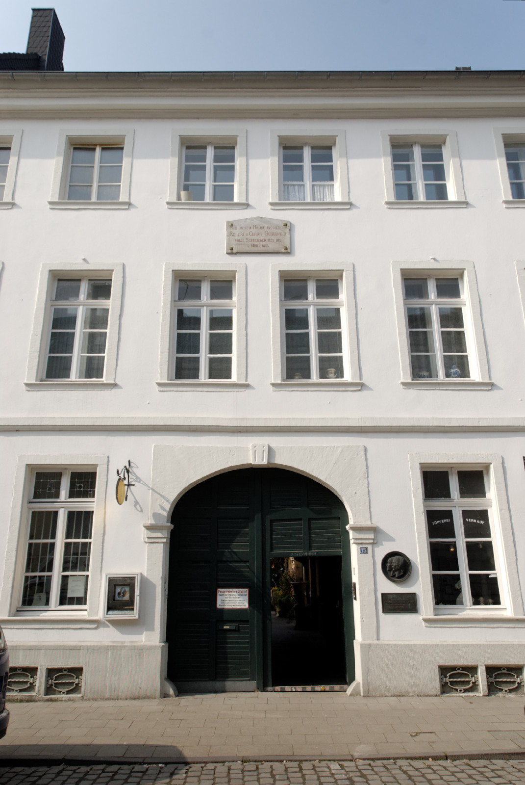 House Bilker Straße 15 in Düsseldorf-Carlstadt, Germany